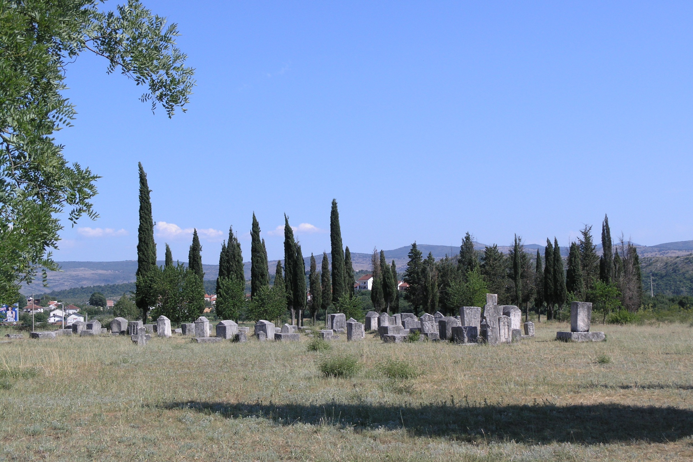 Bosnia and Herzegovina, Radimlja necropolis